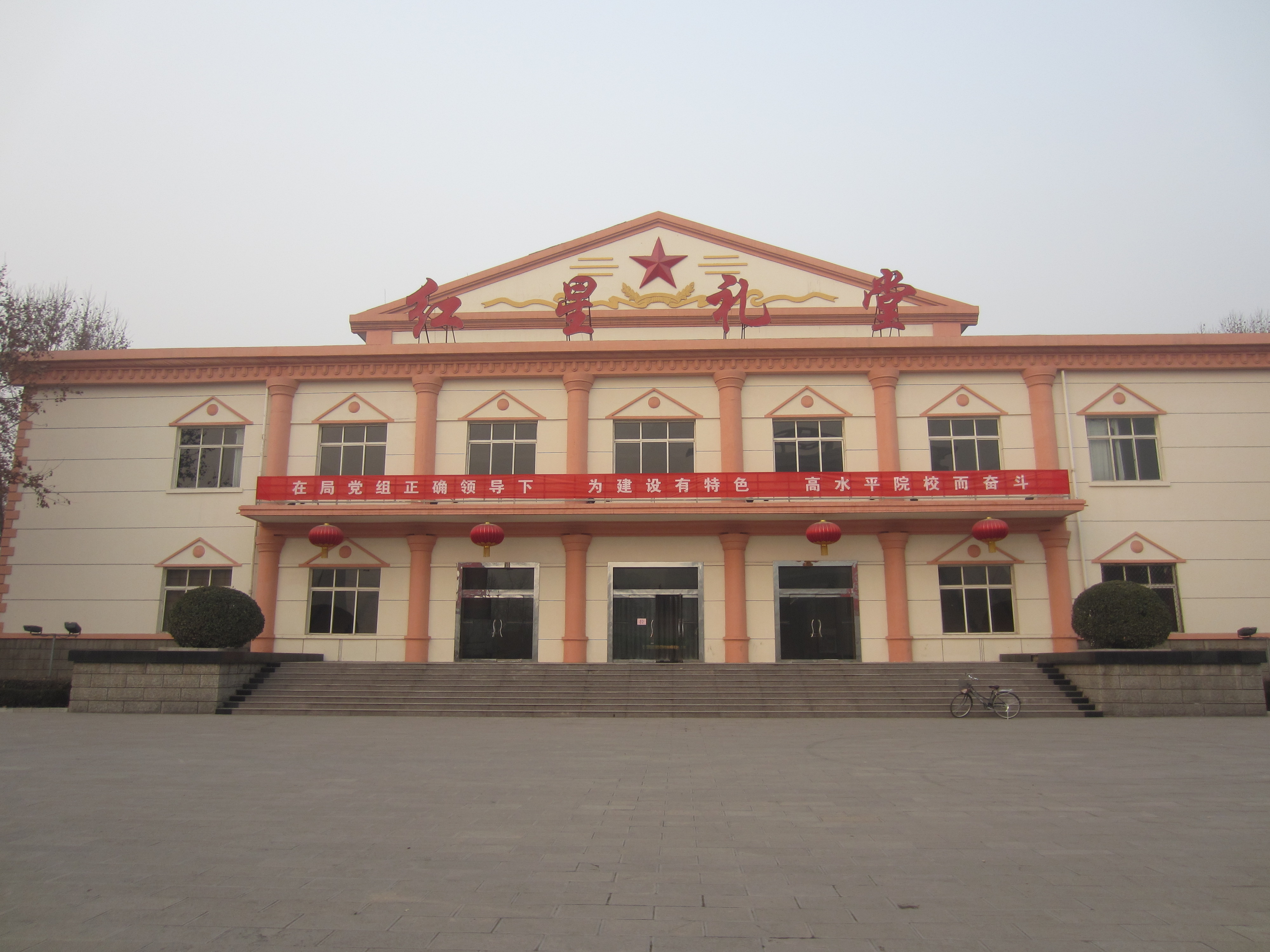 Red_Star_auditorium in Shijiazhuang Army Command College .